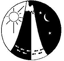 Logo of Rogaining